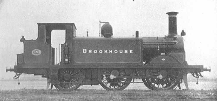 Stroudley's "D" Class Tank for the London, Brighton and South Coast Railway D1 class, 230 Brookhouse